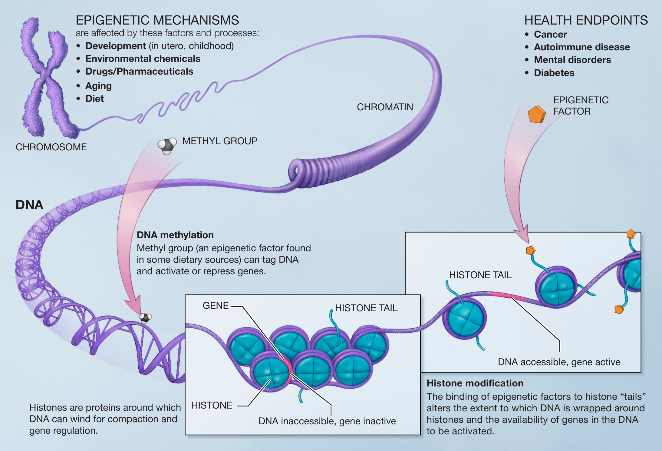 Epigenetic mechanisms are affected by several factors and processes including development in utero and in childhood, environmental chemicals, drugs and pharmaceuticals, aging, and diet. DNA methylation is what occurs when methyl groups, an epigenetic factor found in some dietary sources, can tag DNA and activate or repress genes. Histones are proteins around which DNA can wind for compaction and gene regulation. Histone modification occurs when the binding of epigenetic factors to histone “tails” alters the extent to which DNA is wrapped around histones and the availability of genes in the DNA to be activated. All of these factors and processes can have an effect on people’s health and influence their health possibly resulting in cancer, autoimmune disease, mental disorders, or diabetes among other illnesses. National Institutes of Health